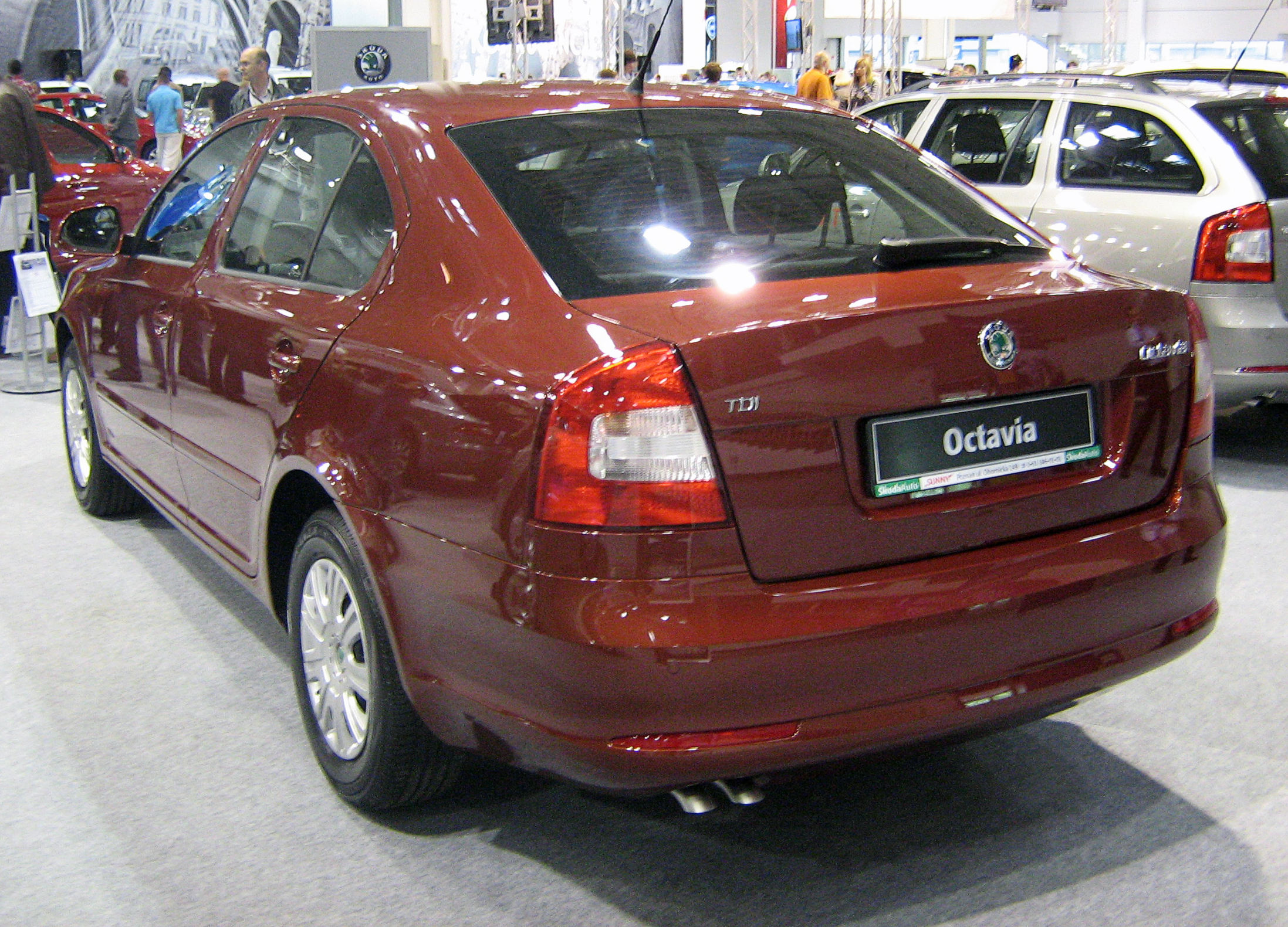 Škoda Octavia II Facelift Liftback rear - PSM 2009 in Poznan.